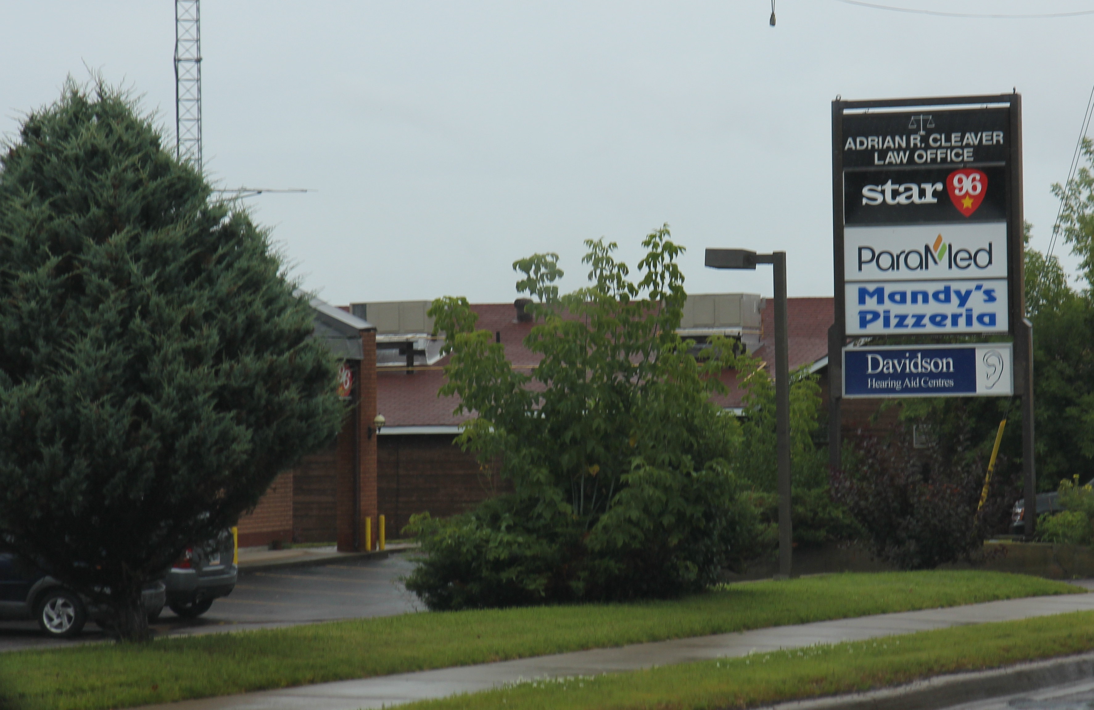 Star 96 radio station in Pembroke, ON.